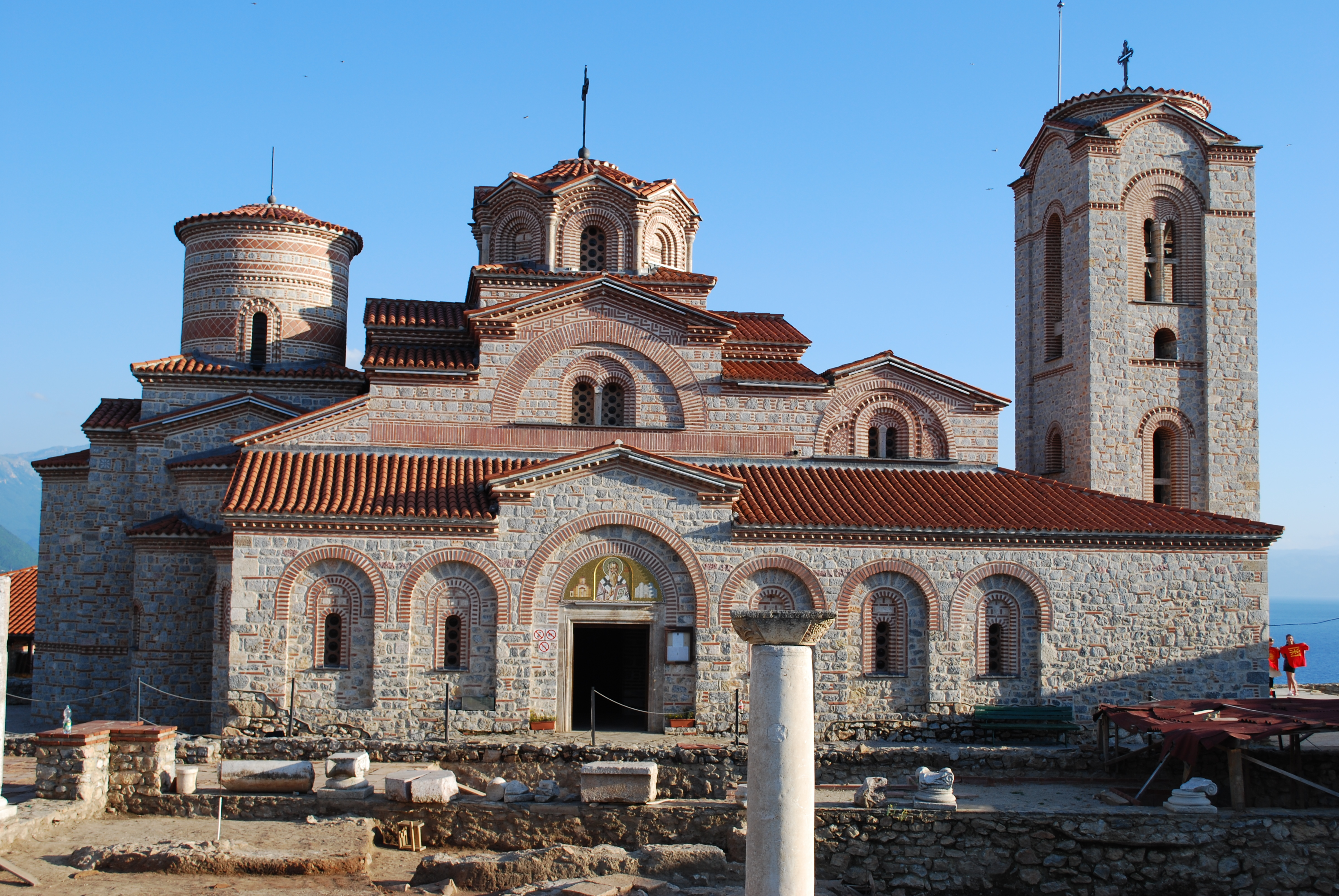 The Church of St. Kliment & St. Pantelejmon at Plaošnik in Ohrid, Macedonia